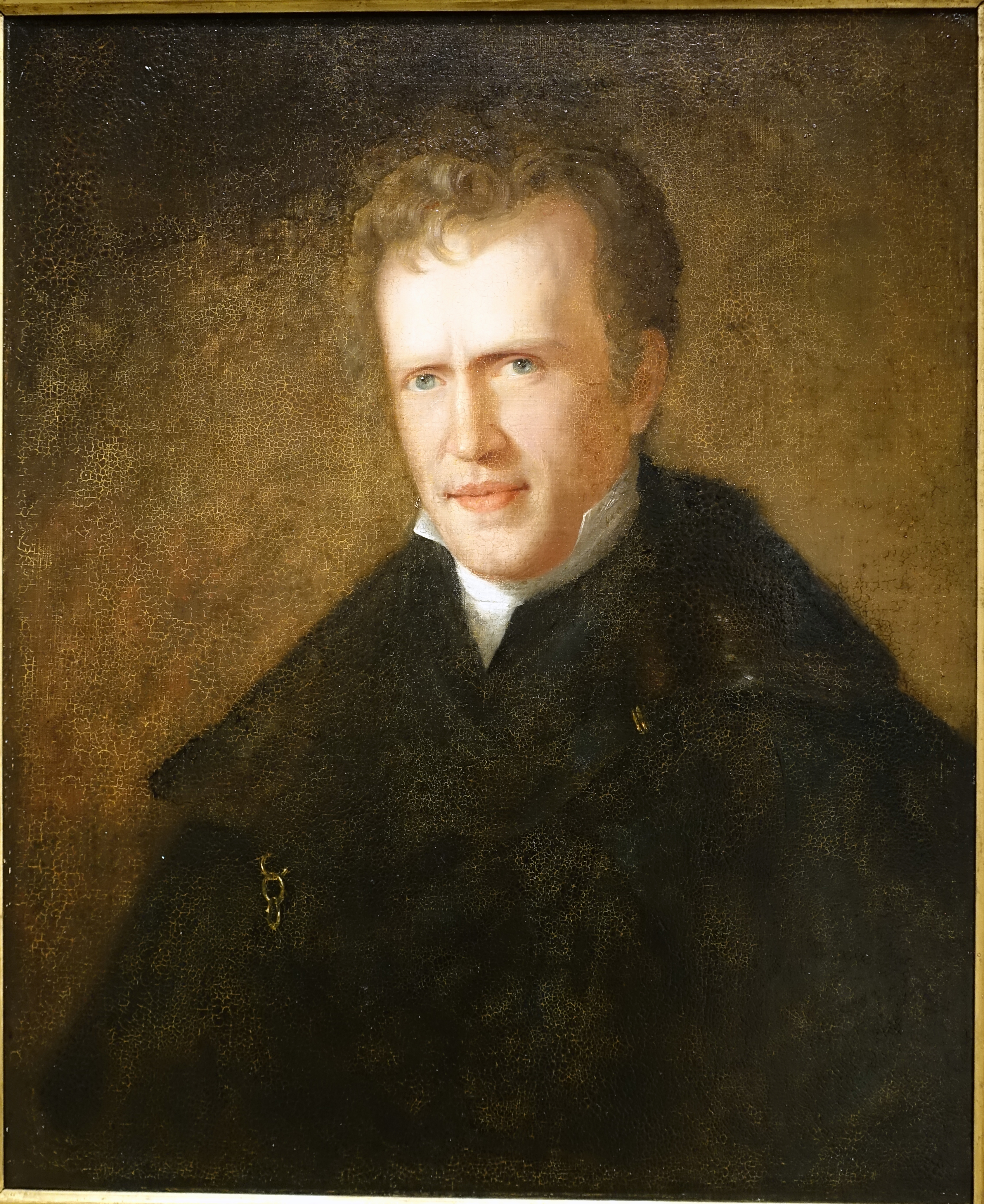 Exhibit in the Portland Museum of Art - Portland, Maine, USA.